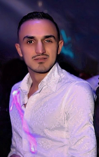 Albanian Actor